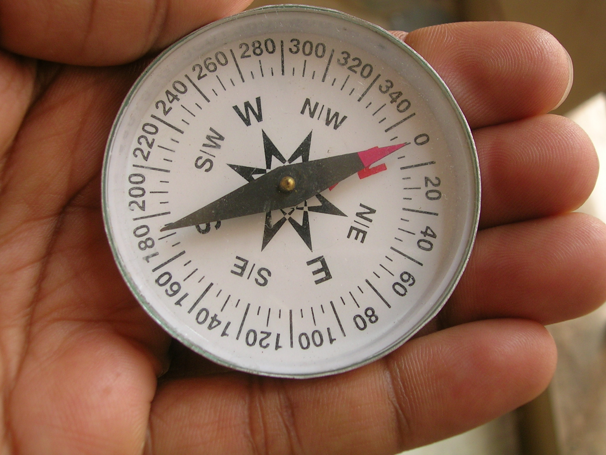 Aligning a compass so that readings of direction can be taken